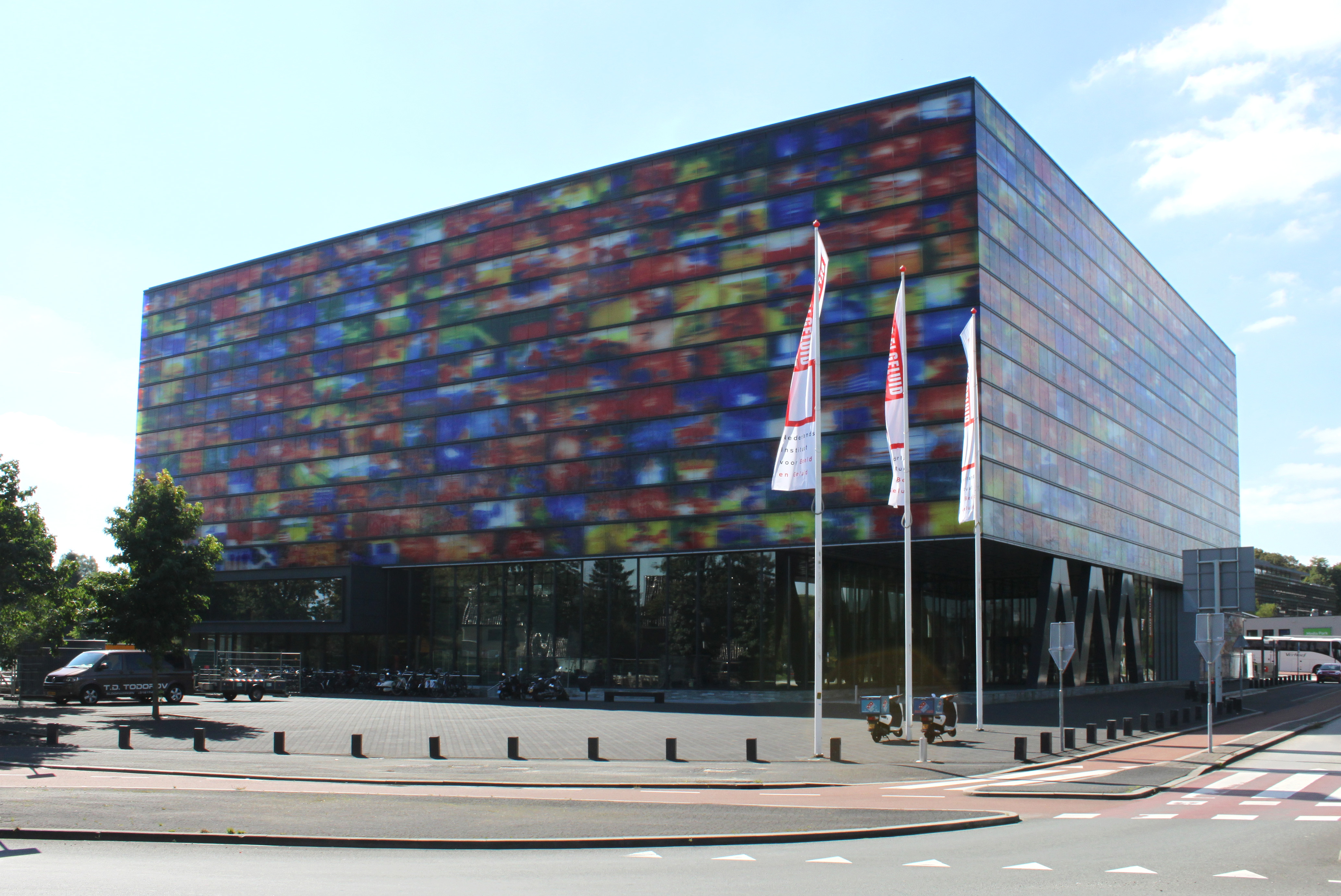 Exterior shot of the Netherlands Institute for Sound and Vision (Nederlands Instituut voor Beeld en Geluid) in Hilversum, the Netherlands. Taken from the Joost den Draaierrotonde.